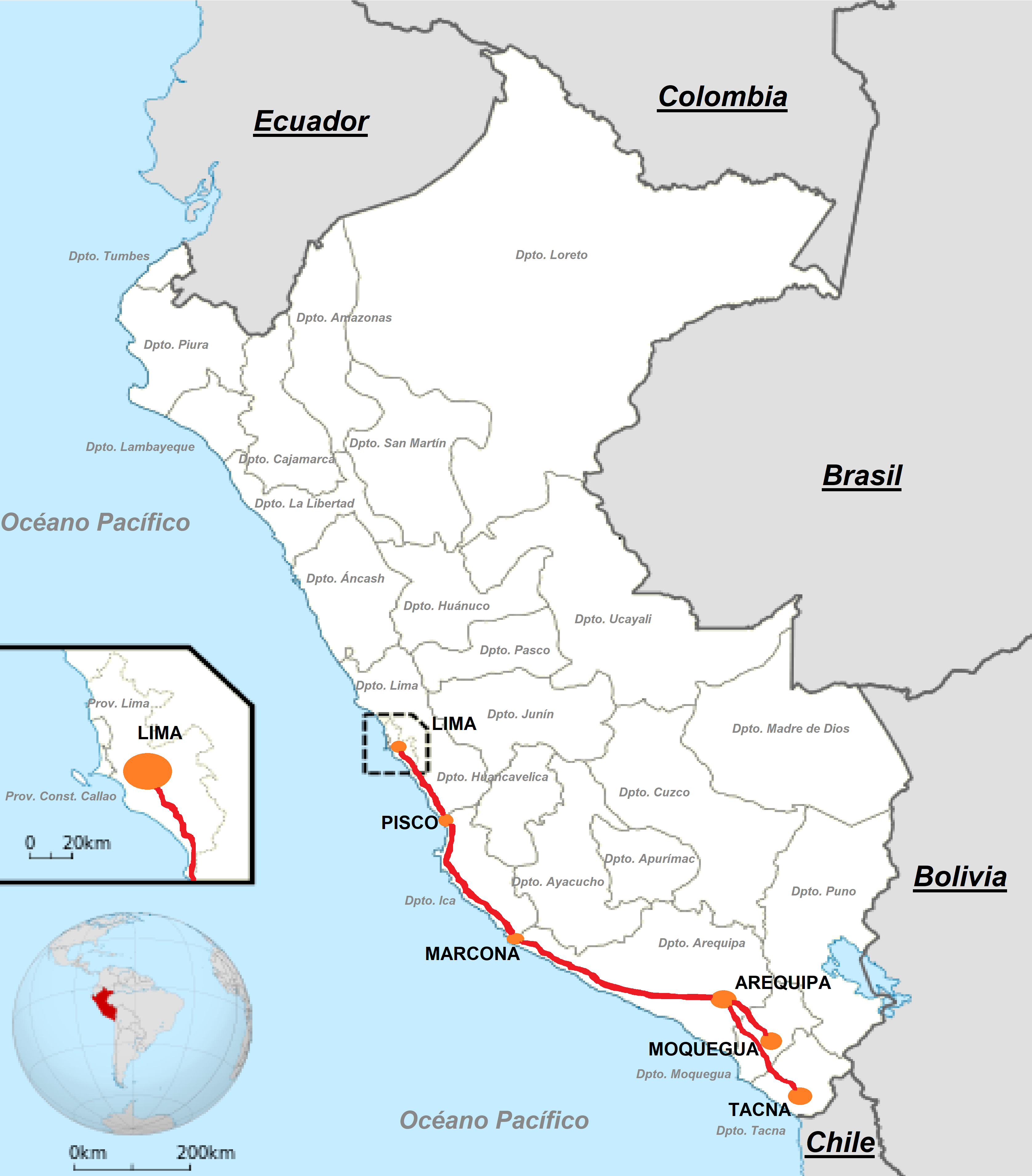 Official Tour of the 2019 Dakar Rally in Peru.